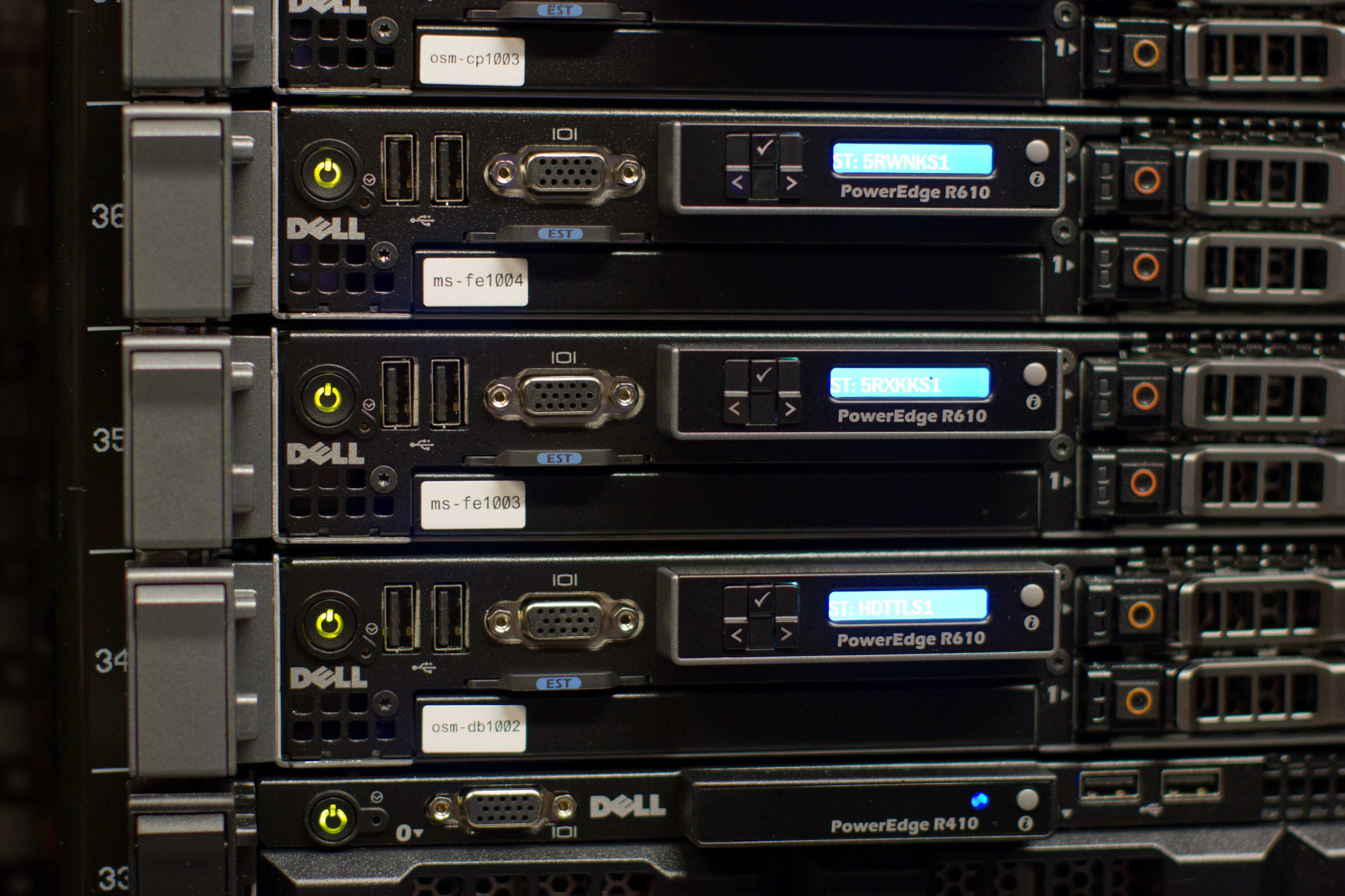 Wikimedia Foundation Servers